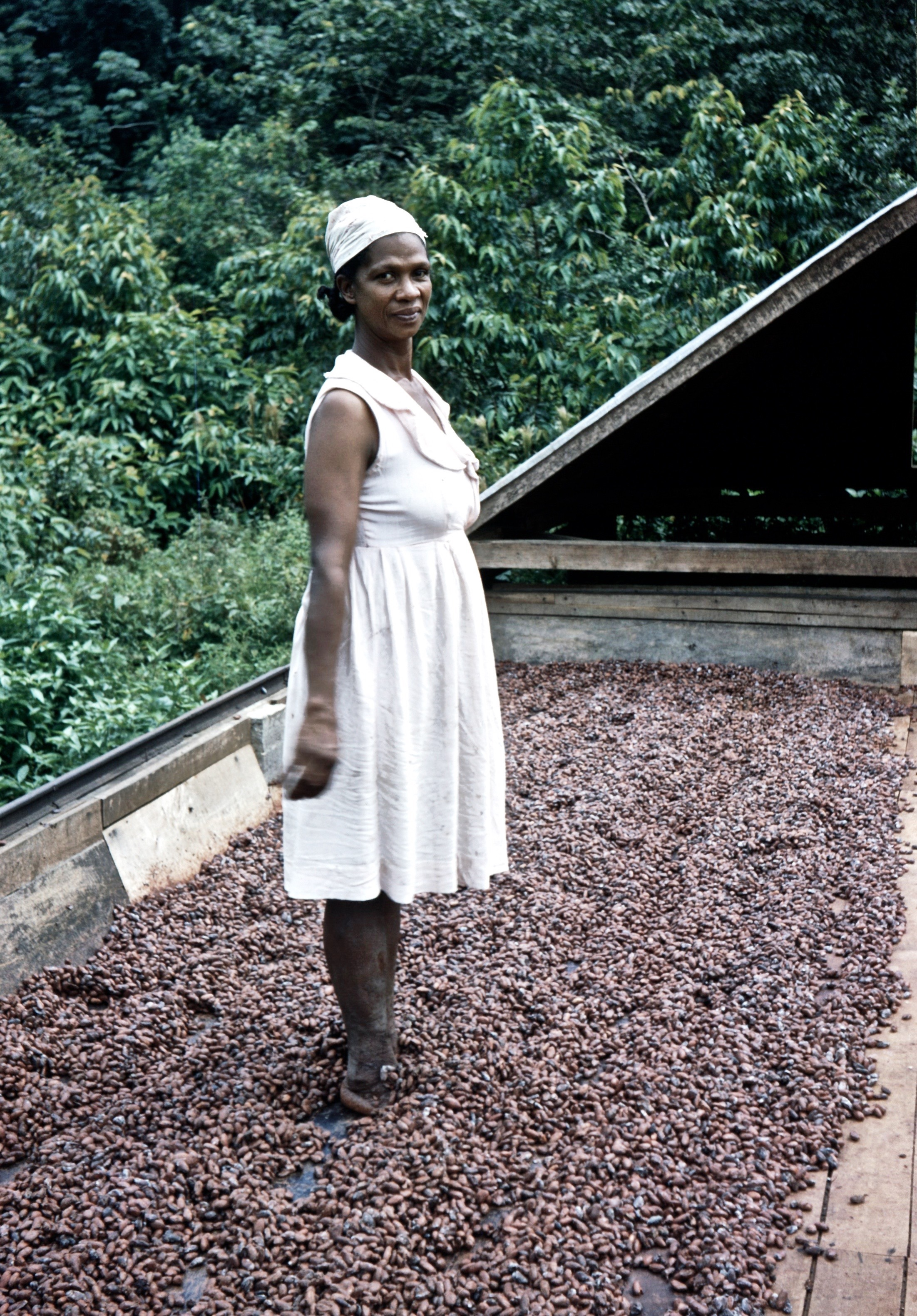 Photo taken with my first camera c. 1957